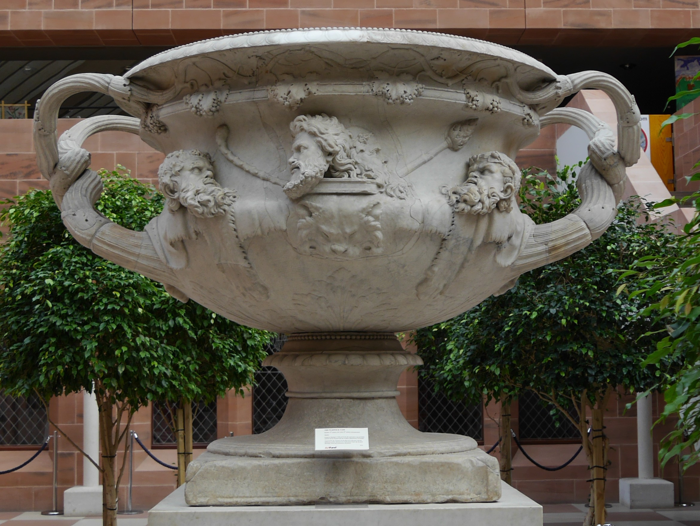 2060 Pollokshaws Road, The Burrell Collection Wikidata has entry Q1016909 with data related to this building.